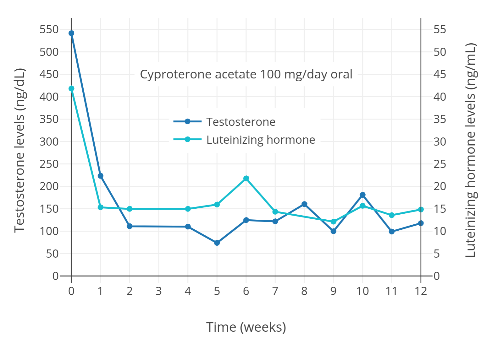 Levels of testosterone (ng/dL) and luteinizing hormone (ng/mL) over the course of 12 weeks with 100 mg/day oral cyproterone acetate in adult men. Testosterone levels decreased from about 540 ng/dL at baseline to about 110 ng/dL at 2 weeks. Hence, testosterone levels decreased by about 80%. Source of the values: (2015). "Tolerability of Antiandrogens in the Treatment of Prostate Cancer". UroOncology 4 (1): 5–13. ISSN 1561-0950.